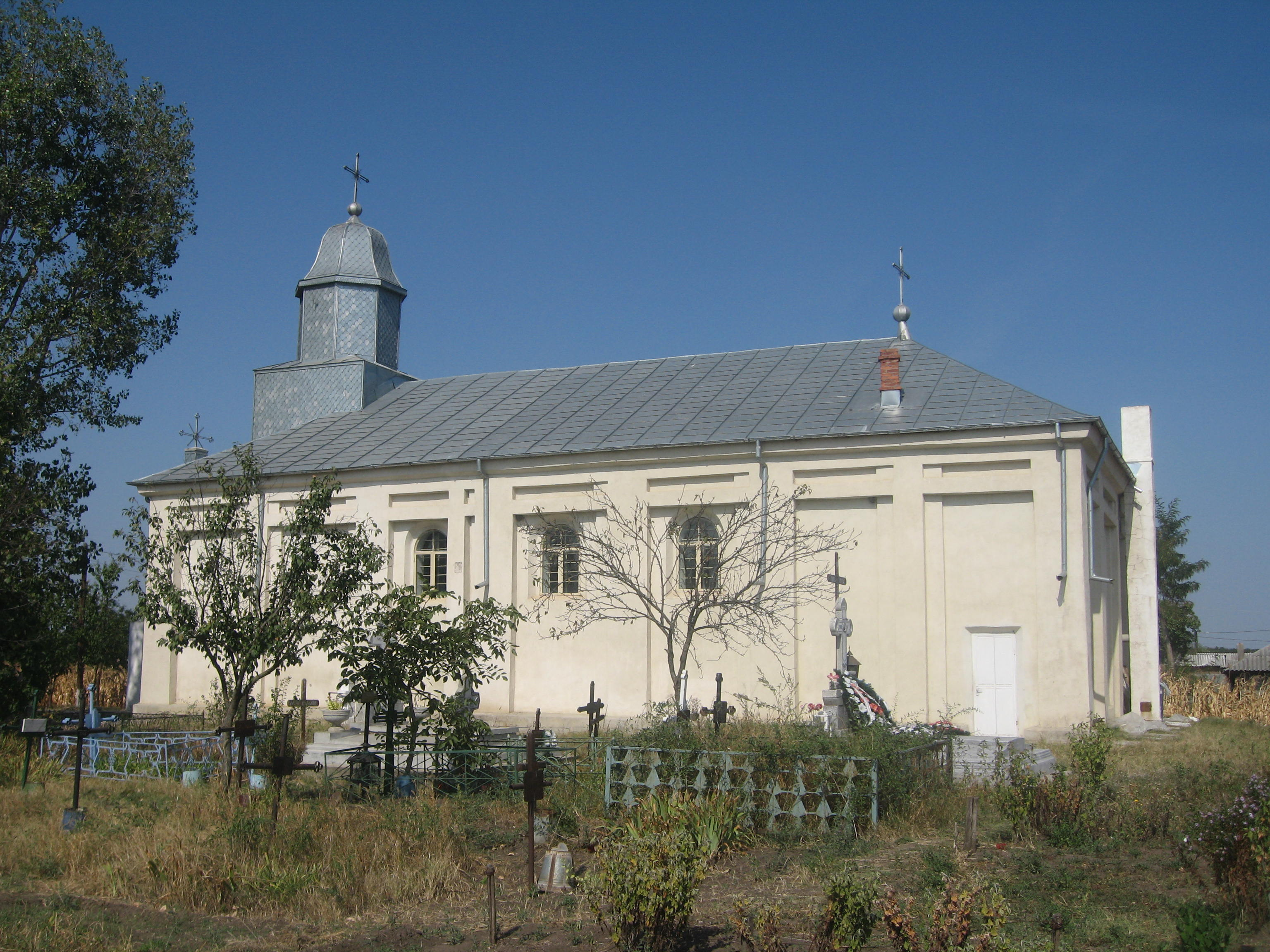 St. Nicholas Church in Ţigăneşti, Galaţi County, Romania